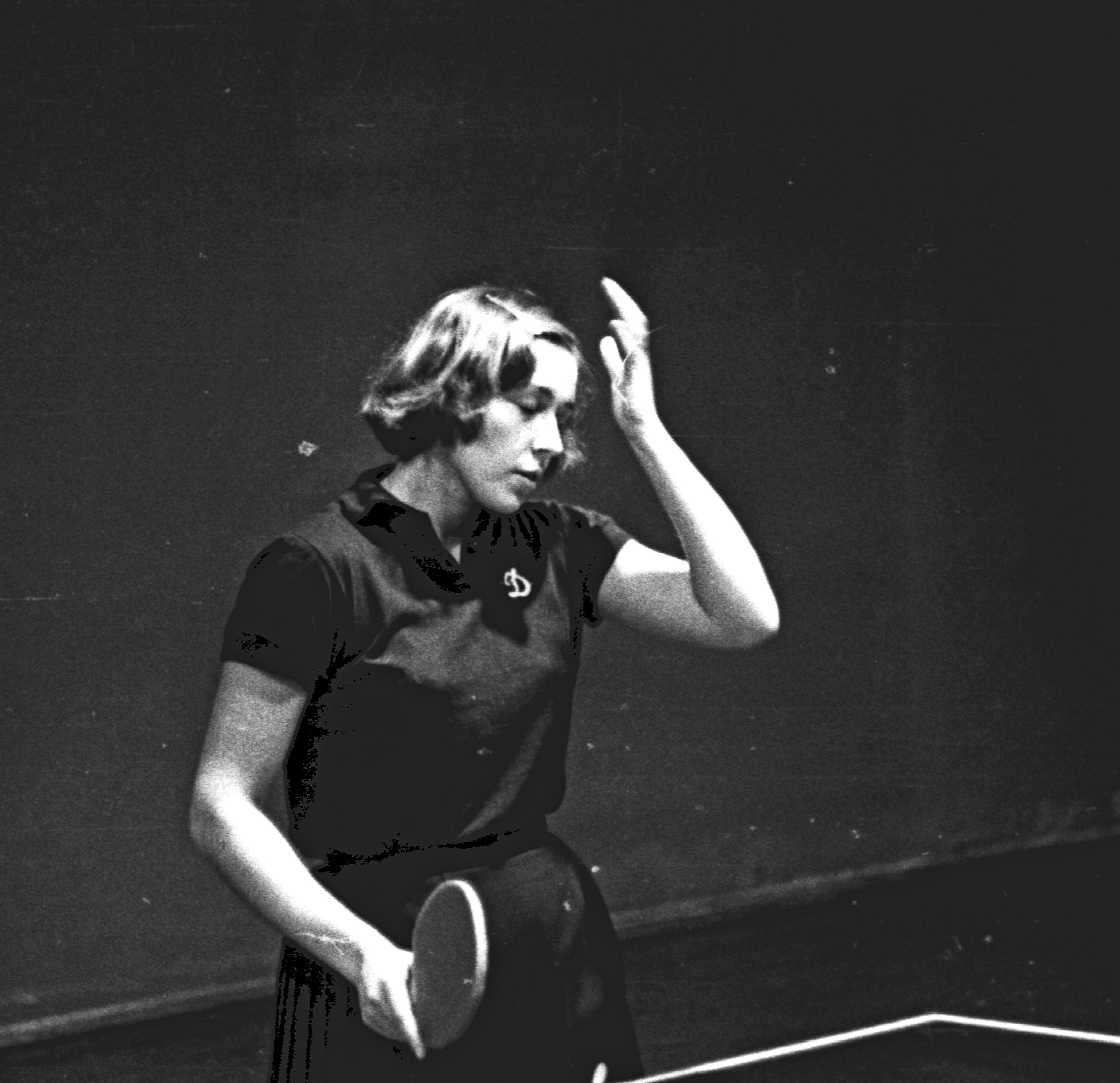 Laima Balaishite-Amelina in 1971